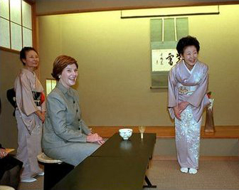 Laura Bush and the Japanese Kantei hostess Kiyoko Fukuda (wife of Chief Cabinet Secretary Yasuo Fukuda) following a lunch and tea ceremony at Akasaka Palace, Tokyo.